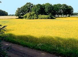 Photo by Christer Streiffert. Agricultural landscape at Fogdo island, lake Malaren, Sweden.